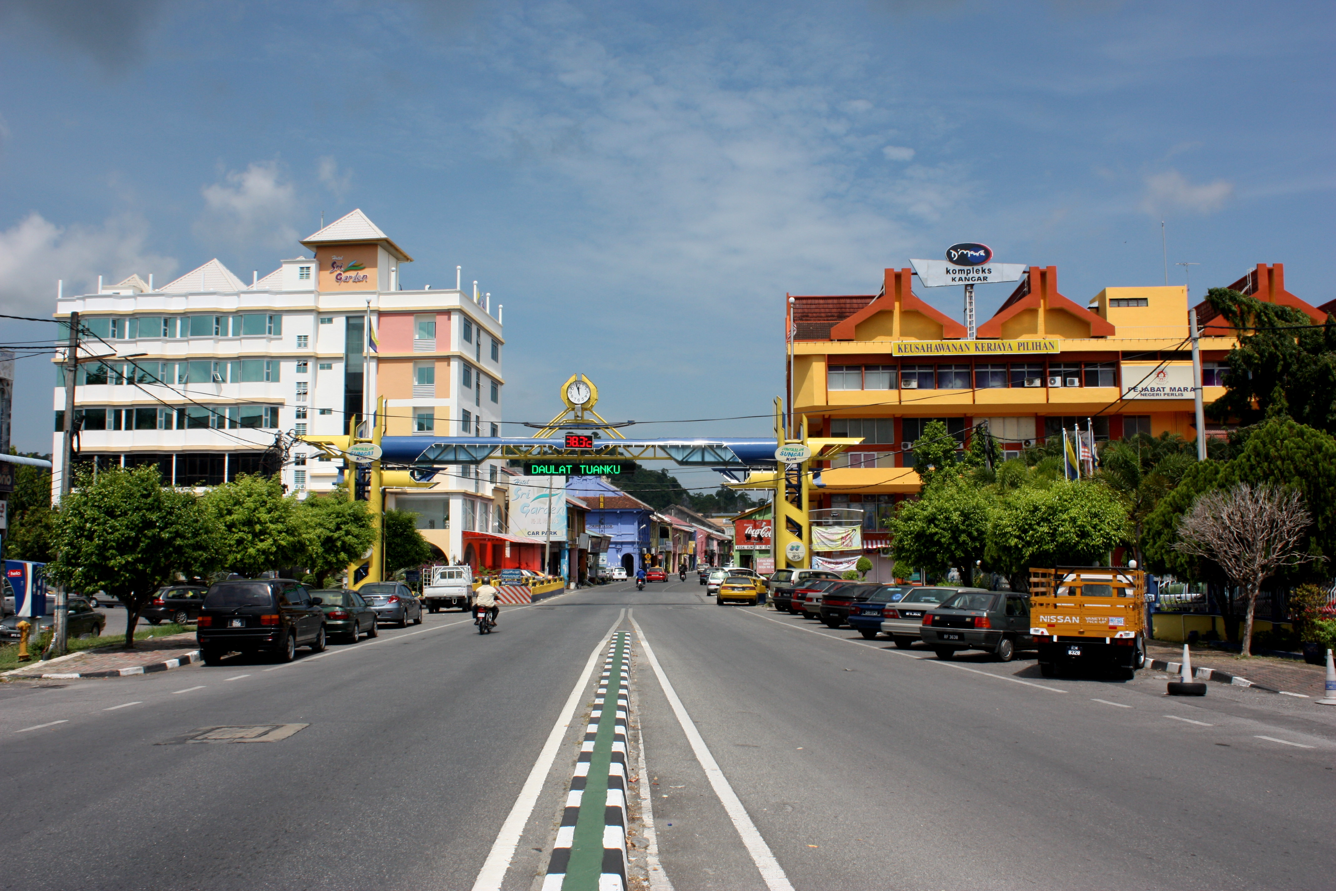 Kangar, capital of Perlis taken by Wolfgang Holzem /